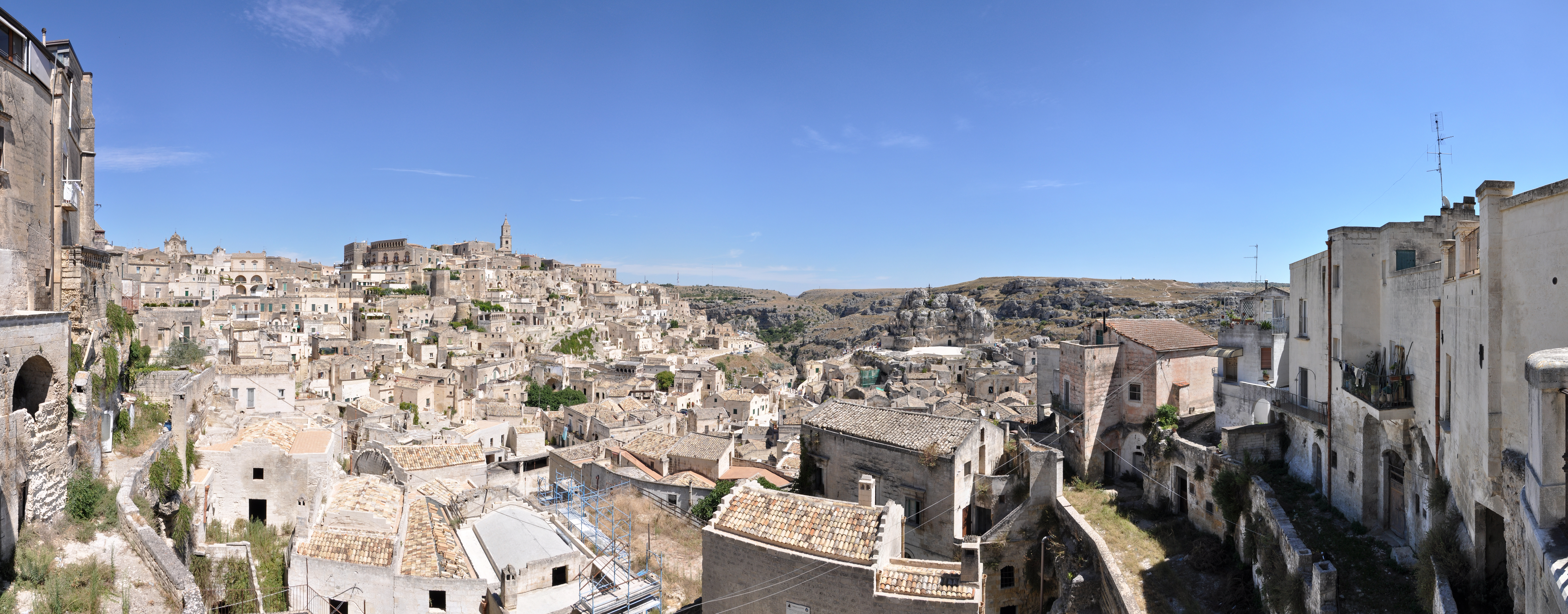 Sassi di Matera - Matera, Italy